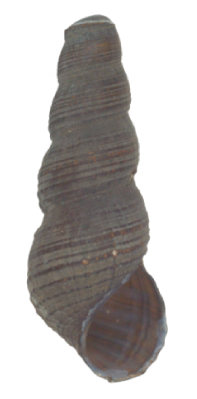 Photo of an apertural view of a shell of Tylomelania celebicola.